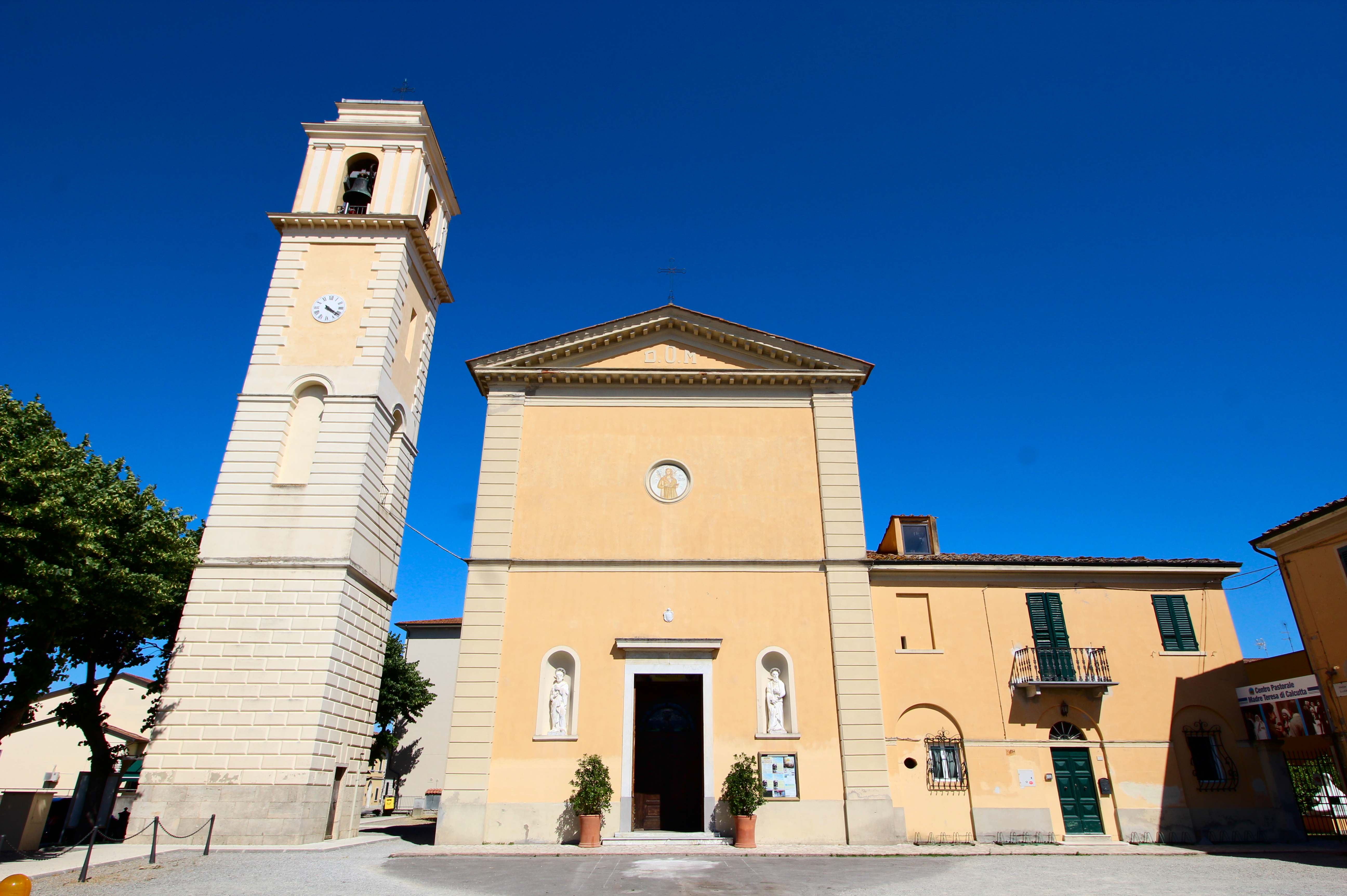 Church Santa Lucia, Perignano, hamlet of Casciana Terme Lari, Province of Pisa, Tuscany, Italy